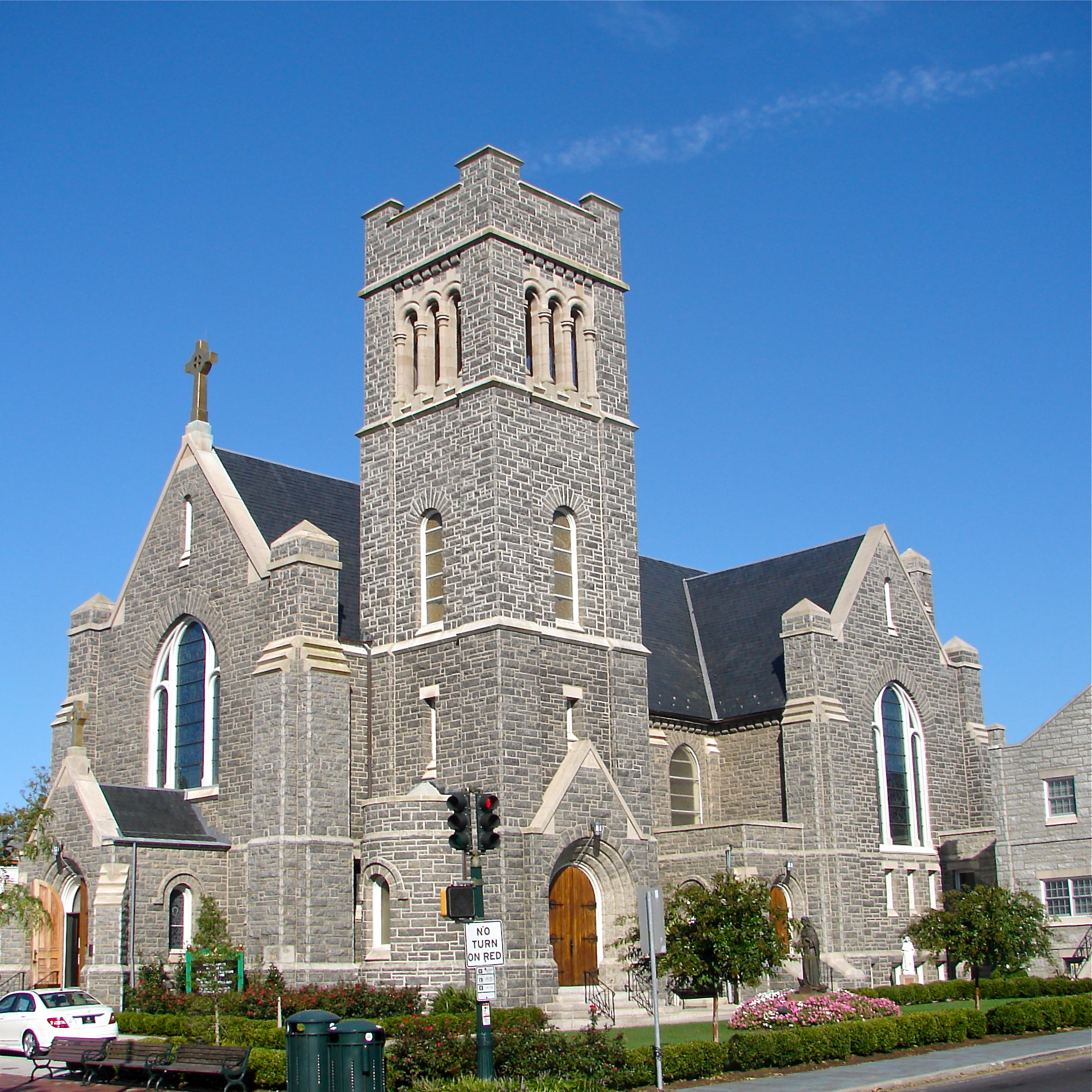 St. Mary's Catholic Church on Washington Street. In the Cape May Historic District, a US Historic Landmark district in Cape May (city), Cape May County, New Jersey.